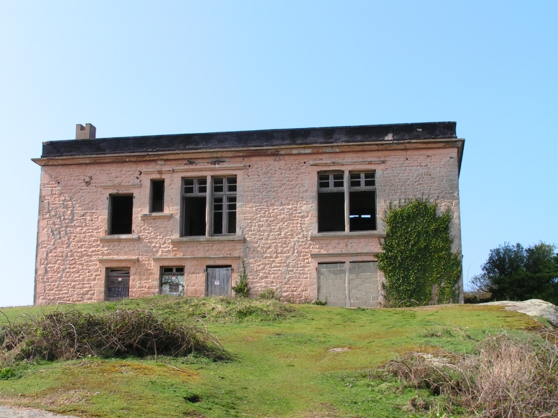 Aristide Briand, former Prime minister of France, lived in this house from 1919 to 1933. In ruins for many years, it was destroyed in September 2009.